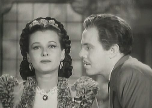 Joan Bennett and Louis Hayward in The Son of Monte Cristo (1940) - cropped screenshot